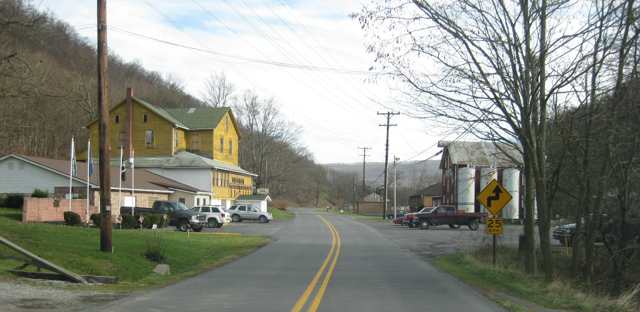 Gapsville, Pennsylvania, facing southeast on South Breezewood Road, Nov. 2011. Breezewood Post of Veterans of Foreign Wars on left. Hills to left and right are Rays Hill.